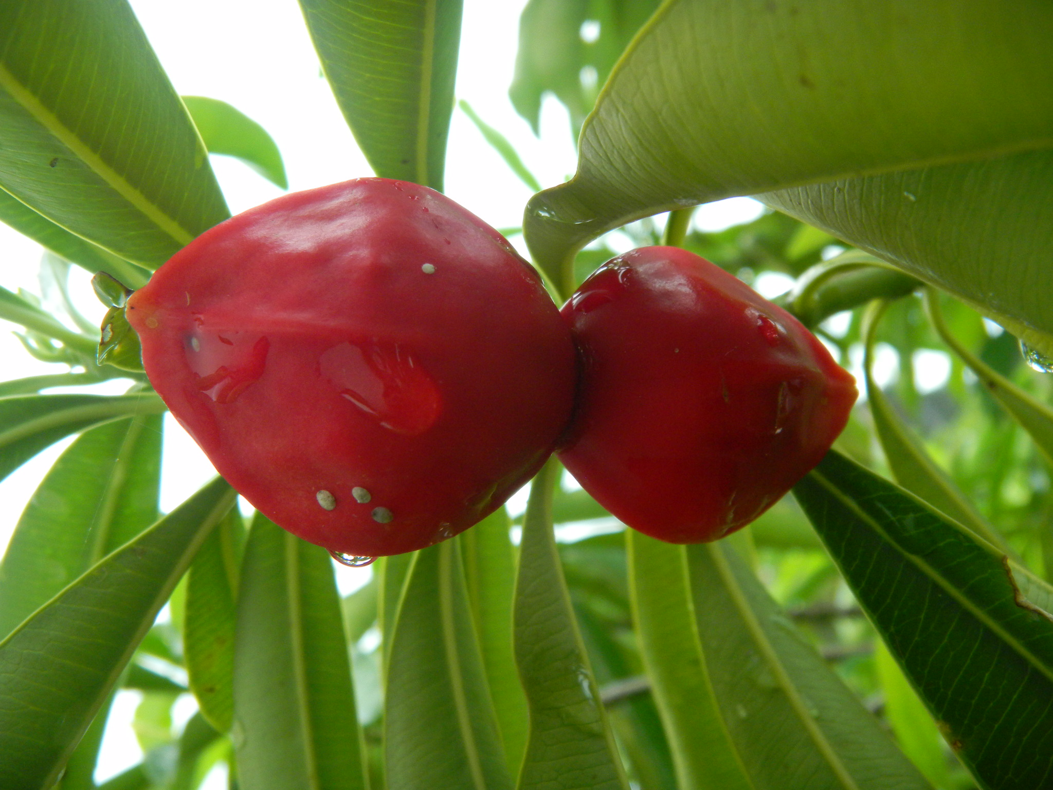 Guam National Wildlife Refuge, Pacific Islands Photo: Katherine Campbell, age 14 First place, Plants and Animals The fruit of the lipstick tree (Ochrosia mariannensis), known as Langiti on Guam, is a food source for deer and pigs. Local people reportedly use it to make dye.